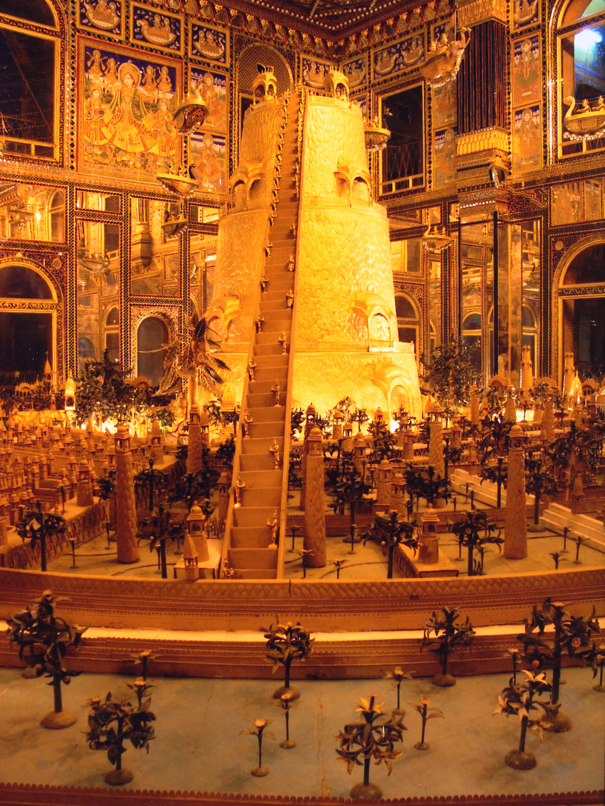 MountSumeru